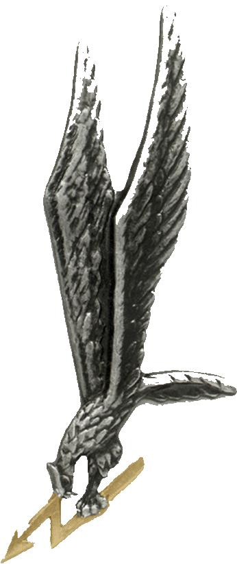 The emblem of the Grom special forces unit of the Polish Army